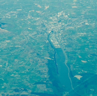 Aerial View of Carlingfor Loch, Newry Canal and Newry